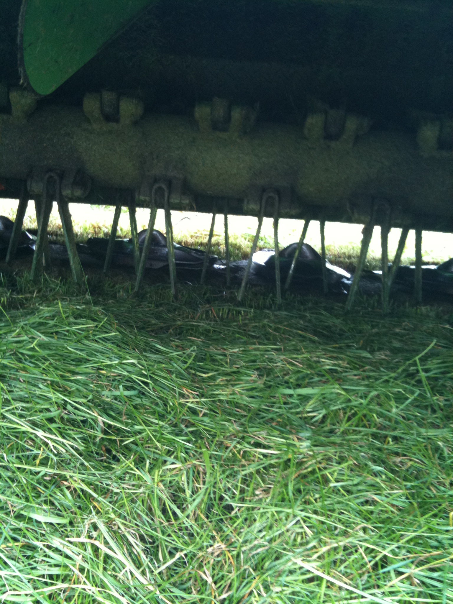 Krone mower